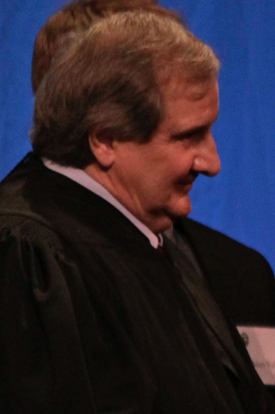 Alaska Supreme Court justice Daniel Winfree at the 2014 Alaska gubernatorial inauguration.